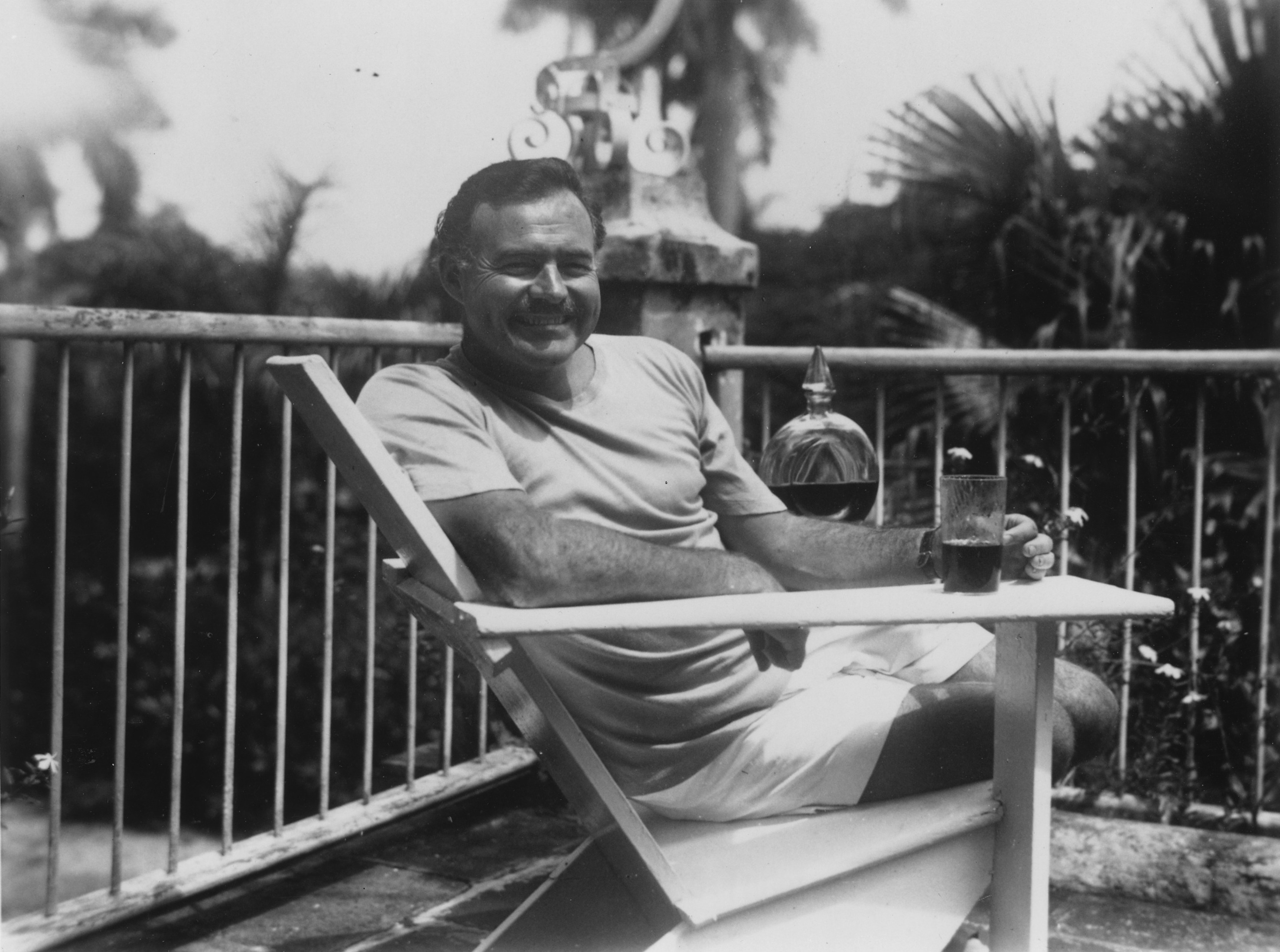 Scope and content: Photograph of Ernest Hemingway at the Finca Vigia, his home in Cuba.